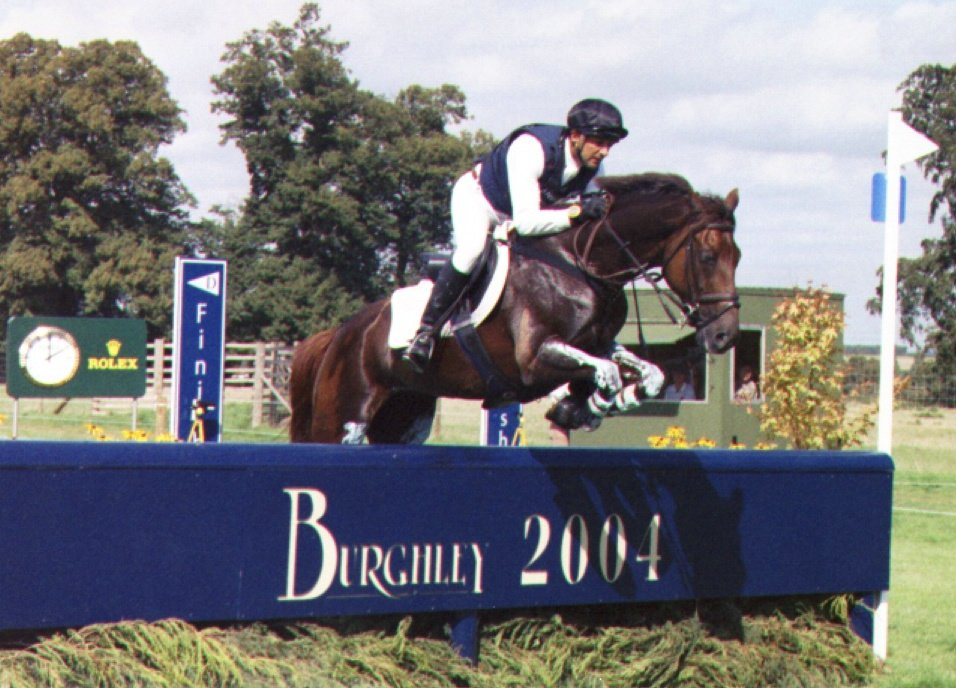 Bill Levett of Australia, riding Angela Dimsdale-Gill's Minuto, clears one of the easier, early fences at the Burghley Horse Trials 2004.